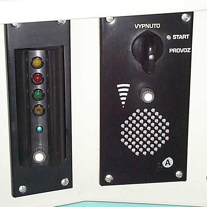 display of cab signalling LS 90 used in Czechia